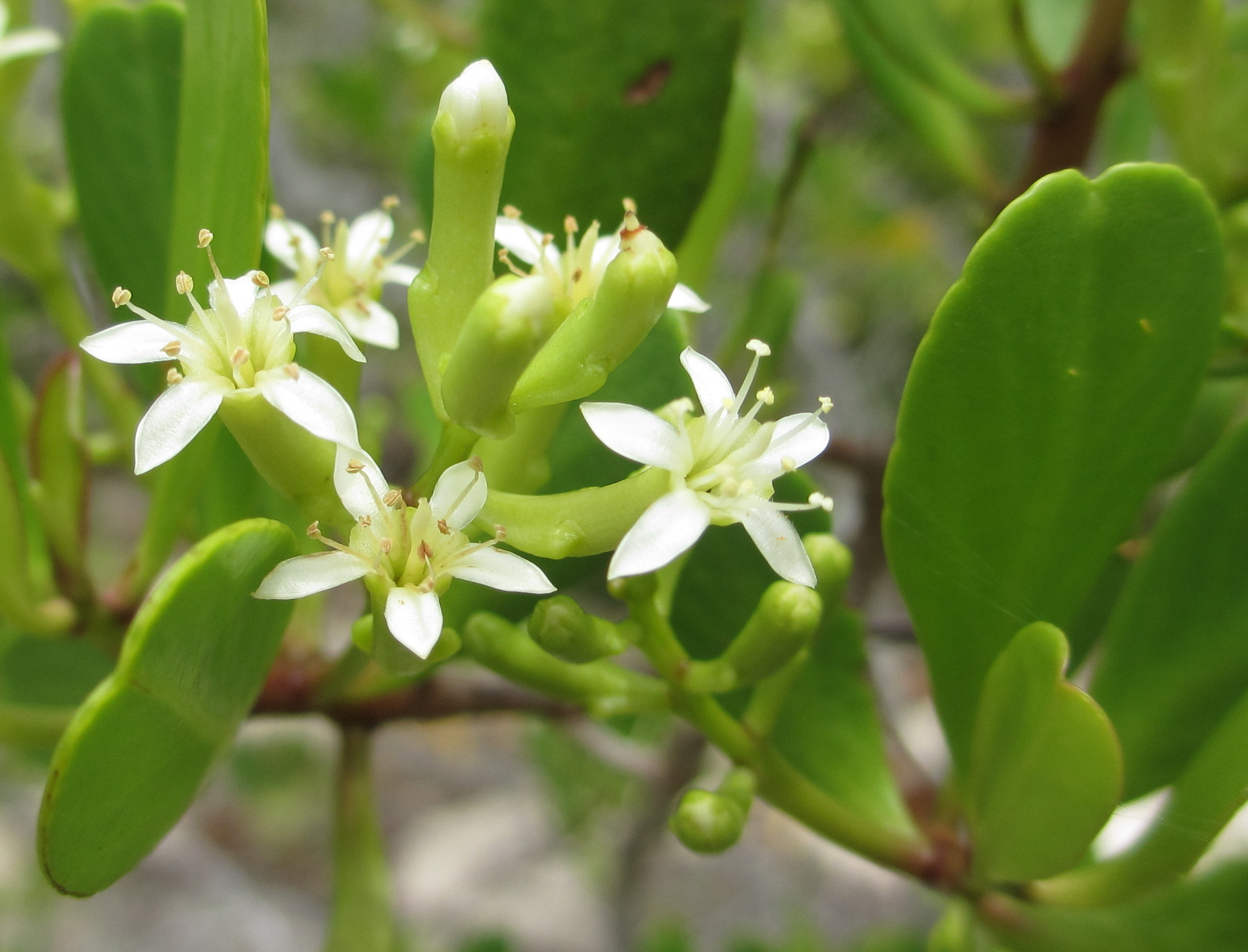 Tonga Mangrove, on Pemba bay in Northern Mozambique